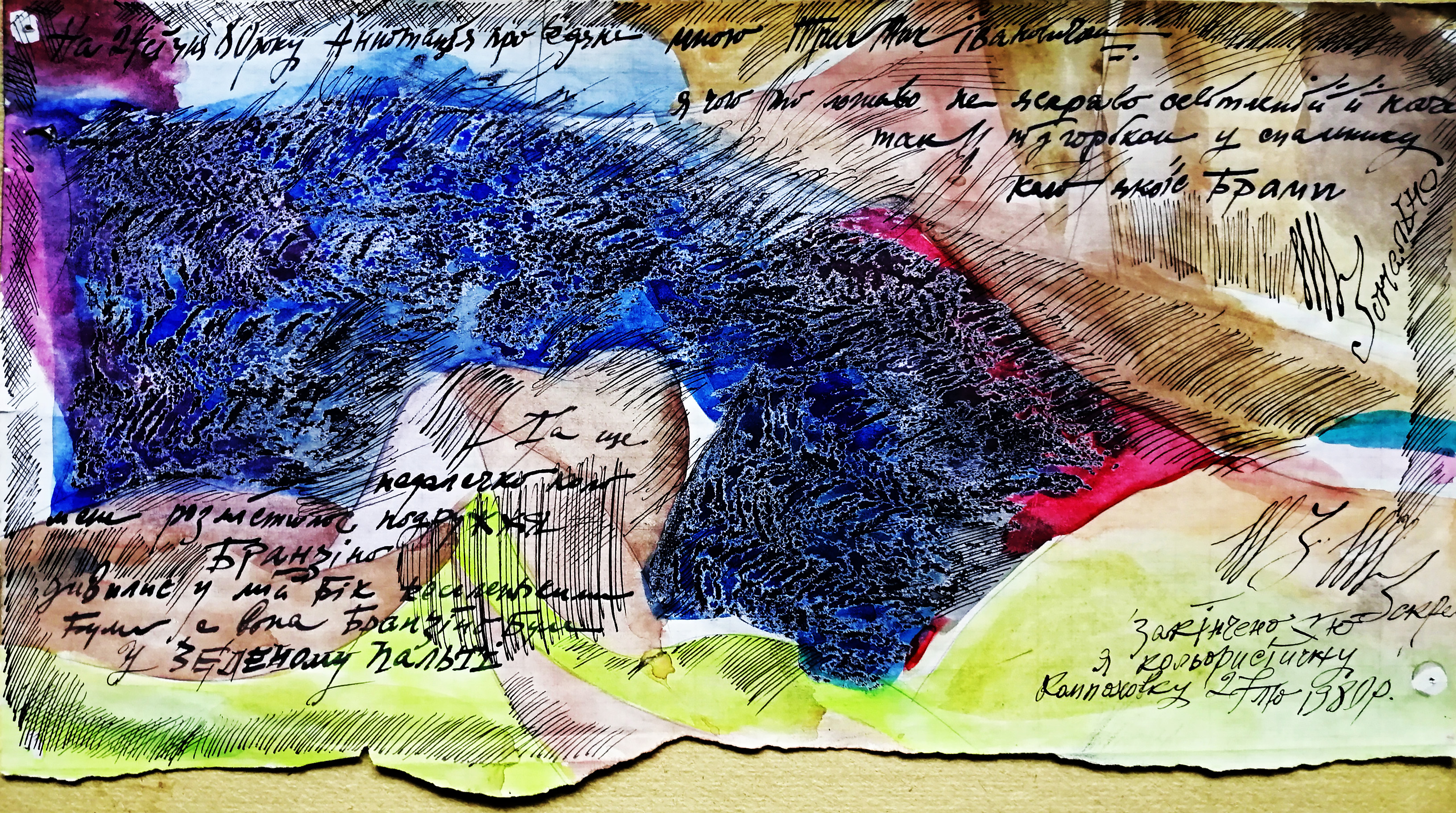 M.Trehub. Zonally, color concept. Paper, mix tekhn.1980